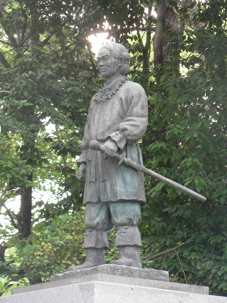 the bronze statue of Yamato Takeru at Ootori-taisha shrine, Sakai, Osaka, Japan